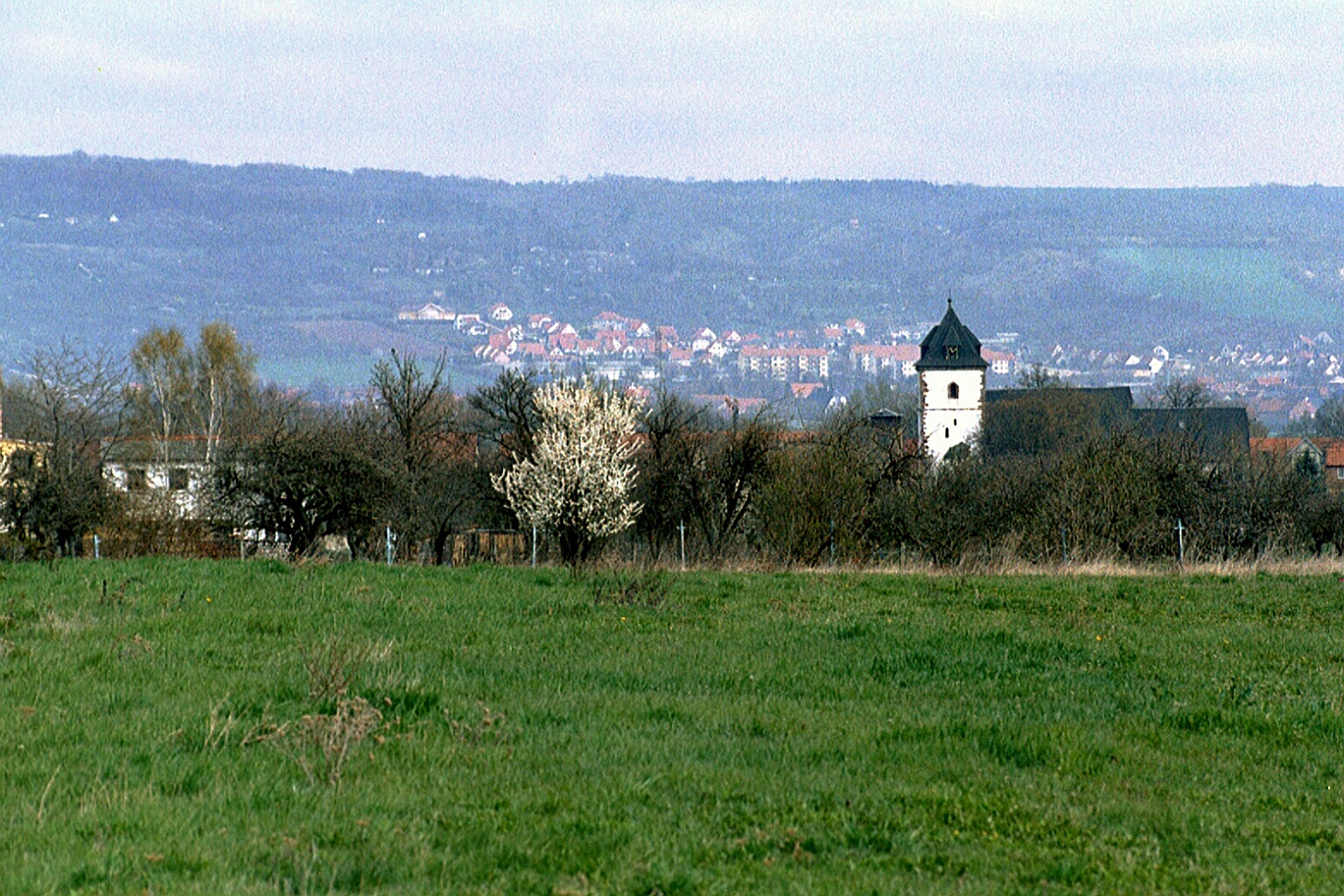 Brücken-Hackpfüffel, view to the church in Brücken